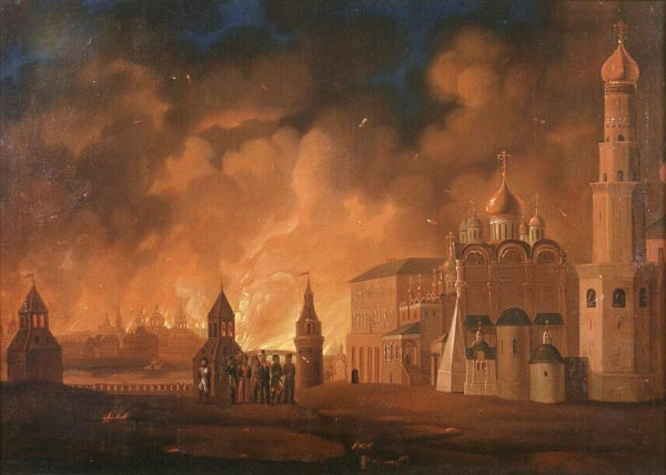 Fire of Moscow in 15-18 September, 1812, after Napoleon takes the city